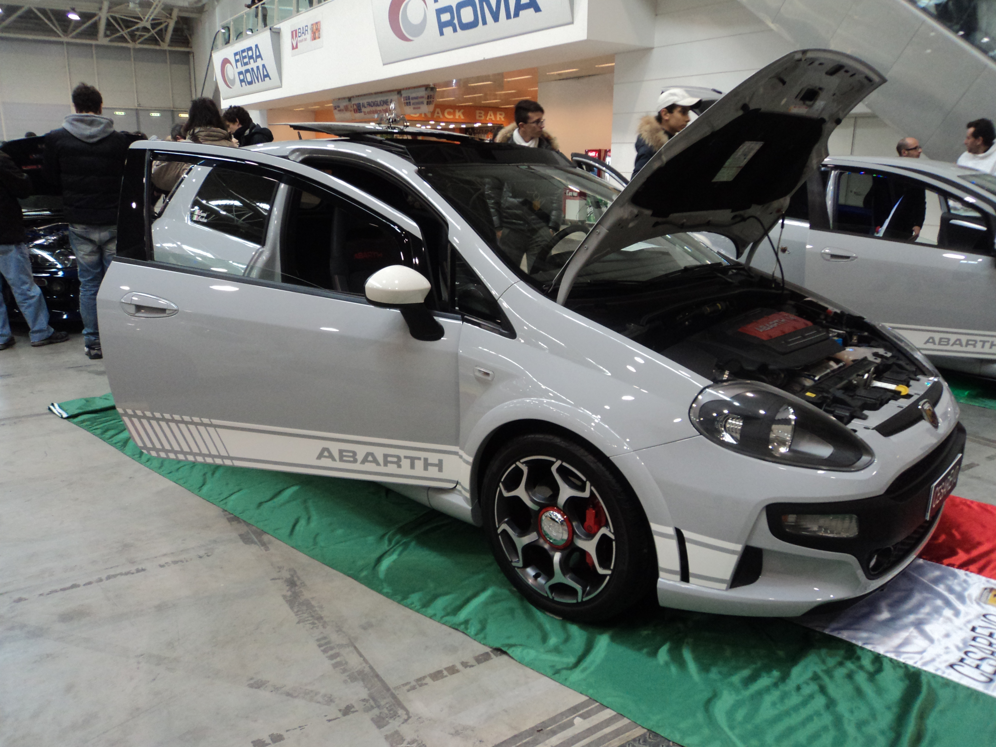 Rome Tuning Show.